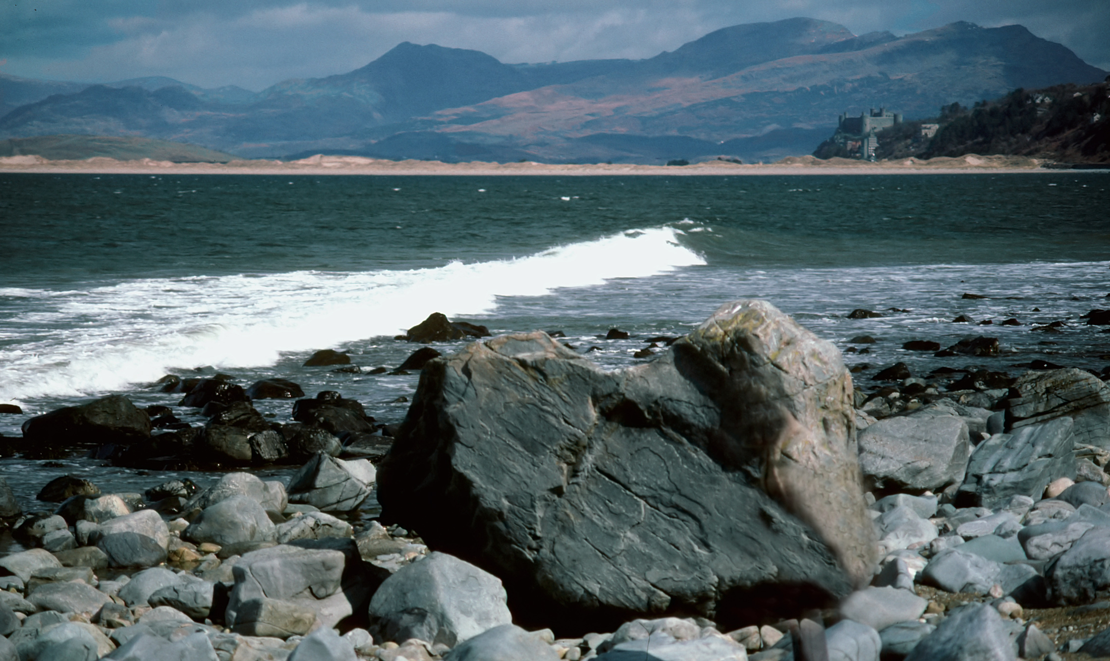 View from Shell Island to the north - in the distance Harlech Castle and the Snowdon Massif; North Wales/Britain